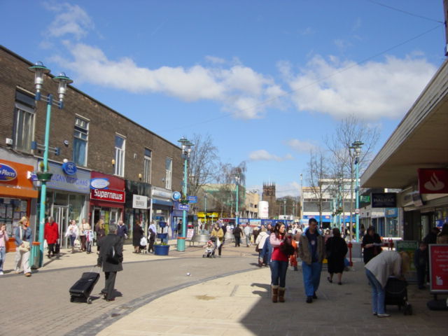 Huyton centre referred to as "Huyton Village" by locals, looking north along Derby Road to St Michael's church. Just visible is the construction of the new retail development on the former Asda site which will be completed at the end of 2006.